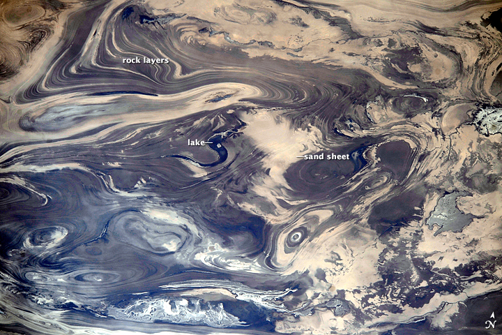 As the astronauts on the International Space Station passed over the deserts of central Iran recently, they were greeted by this striking pattern of parallel lines and sweeping curves. The lack of soil and vegetation in the Kavir desert (Dasht-e Kavir) allows the geological structure of the rocks to appear quite clearly. The patterns result from the gentle folding of numerous, thin layers of rock. Later erosion by wind and water cut a flat surface across the dark- and light-colored folds, not only exposing hundreds of layers but also showing the shapes of the folds. The pattern has been likened to the layers of a sliced onion. The dark water of a lake (image center) fills a depression in a more easily eroded, S-shaped layer of rock. The irregular, light-toned patch just left of the lake is a sand sheet thin enough to allow the underlying rock layers to be detected. A small river snakes across the bottom of the image. In this desert landscape, there are no fields or roads to give a sense of scale. In fact, the width of the image is about 105 kilometers (65 miles).